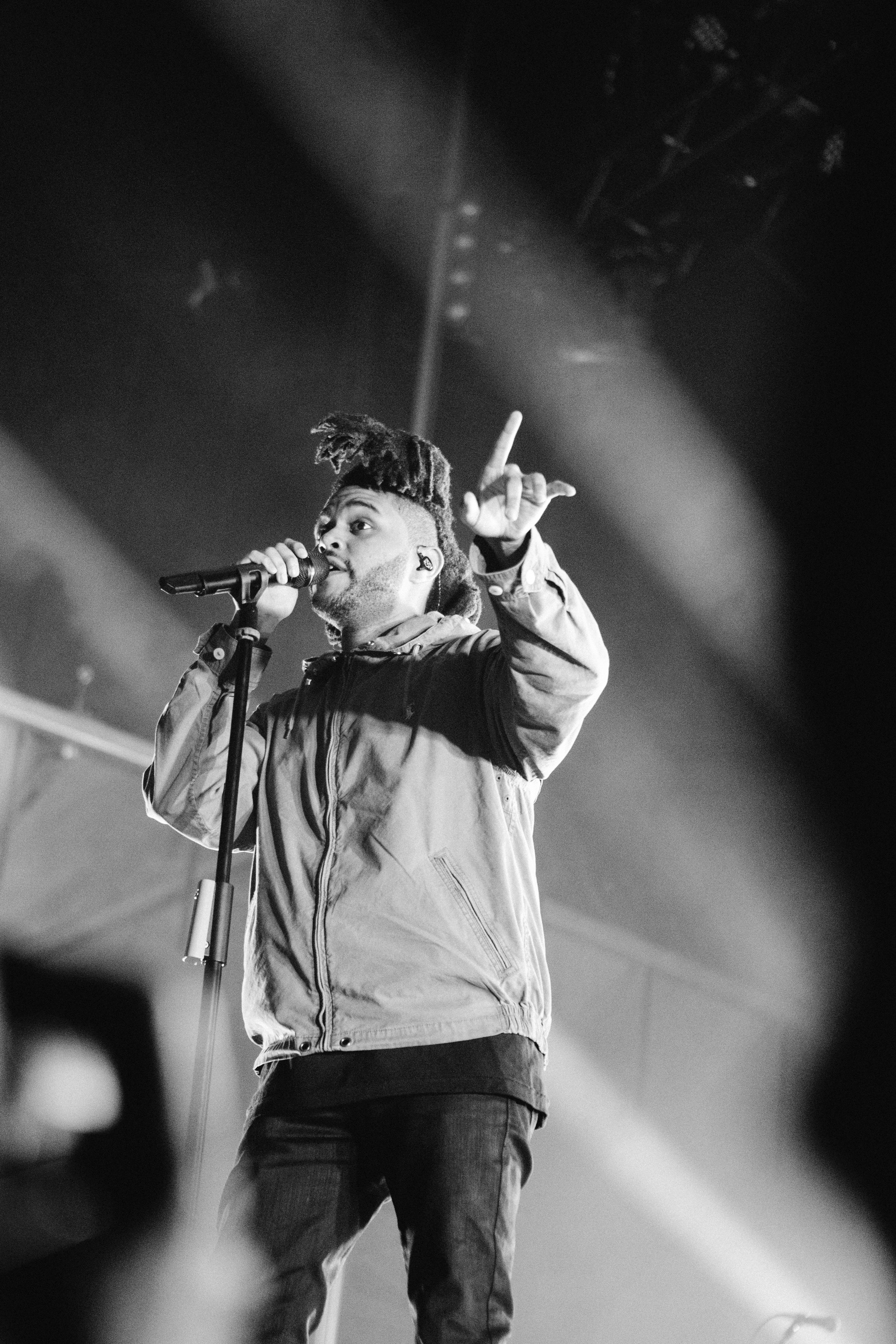 The Weeeknd in Bumbershoot Festival 2015, Seattle